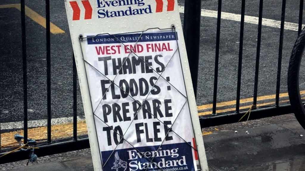 2007 United Kingdom floods